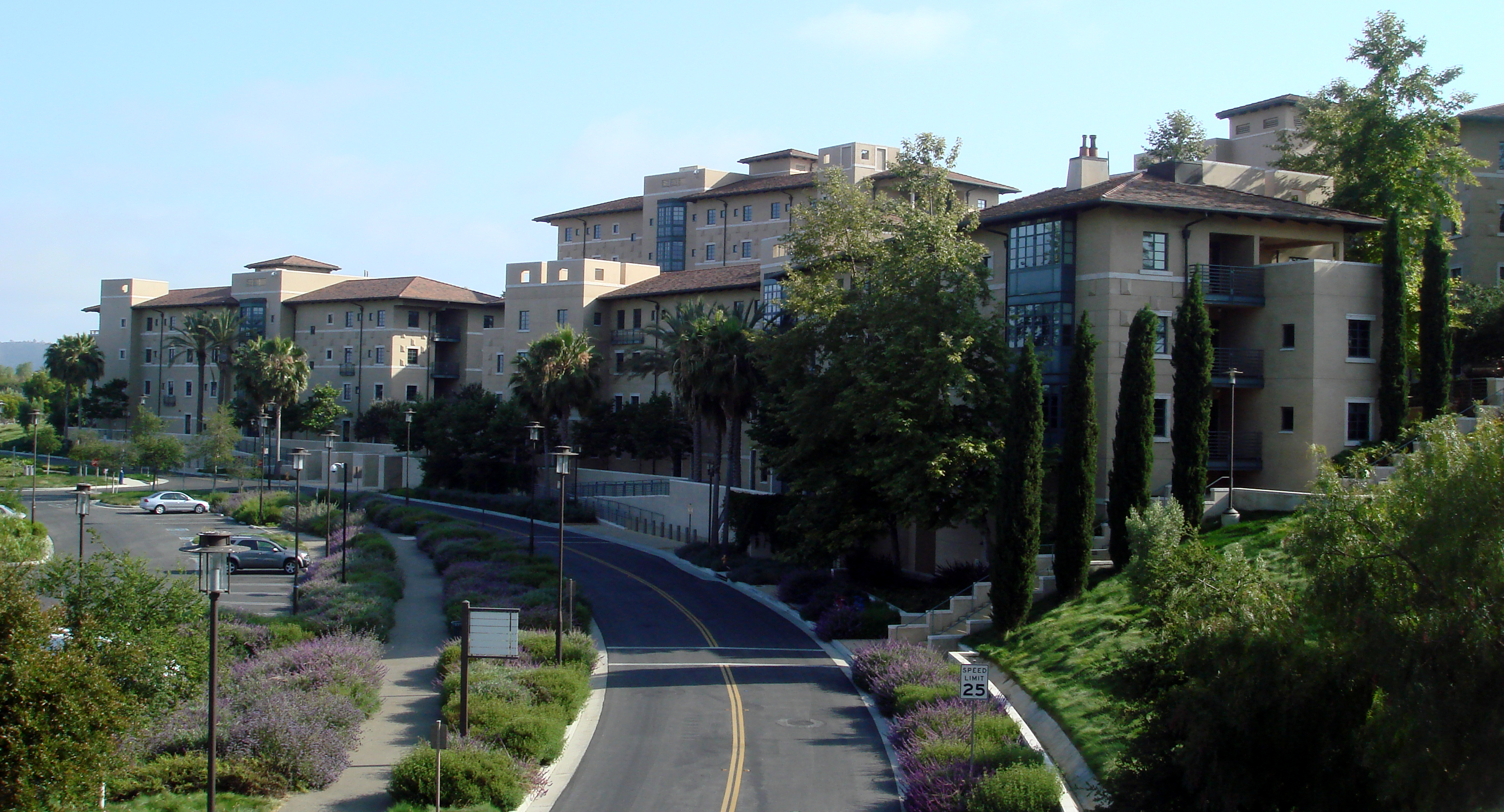 Dormitories, Soka University of America in Aliso Viejo, California.